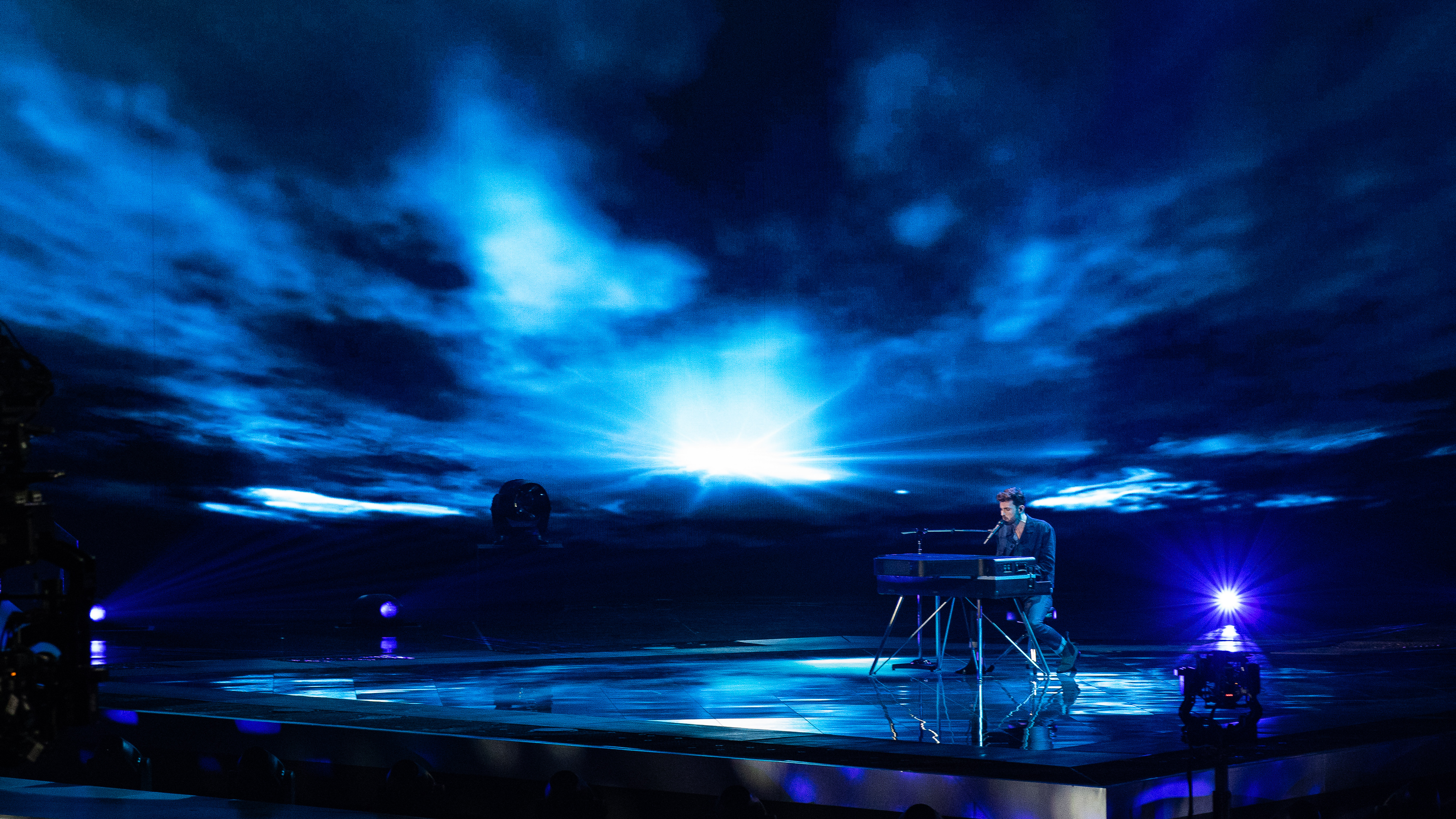 At the 2019 Eurovision Song Contest Semi-final 2 dress rehearsal